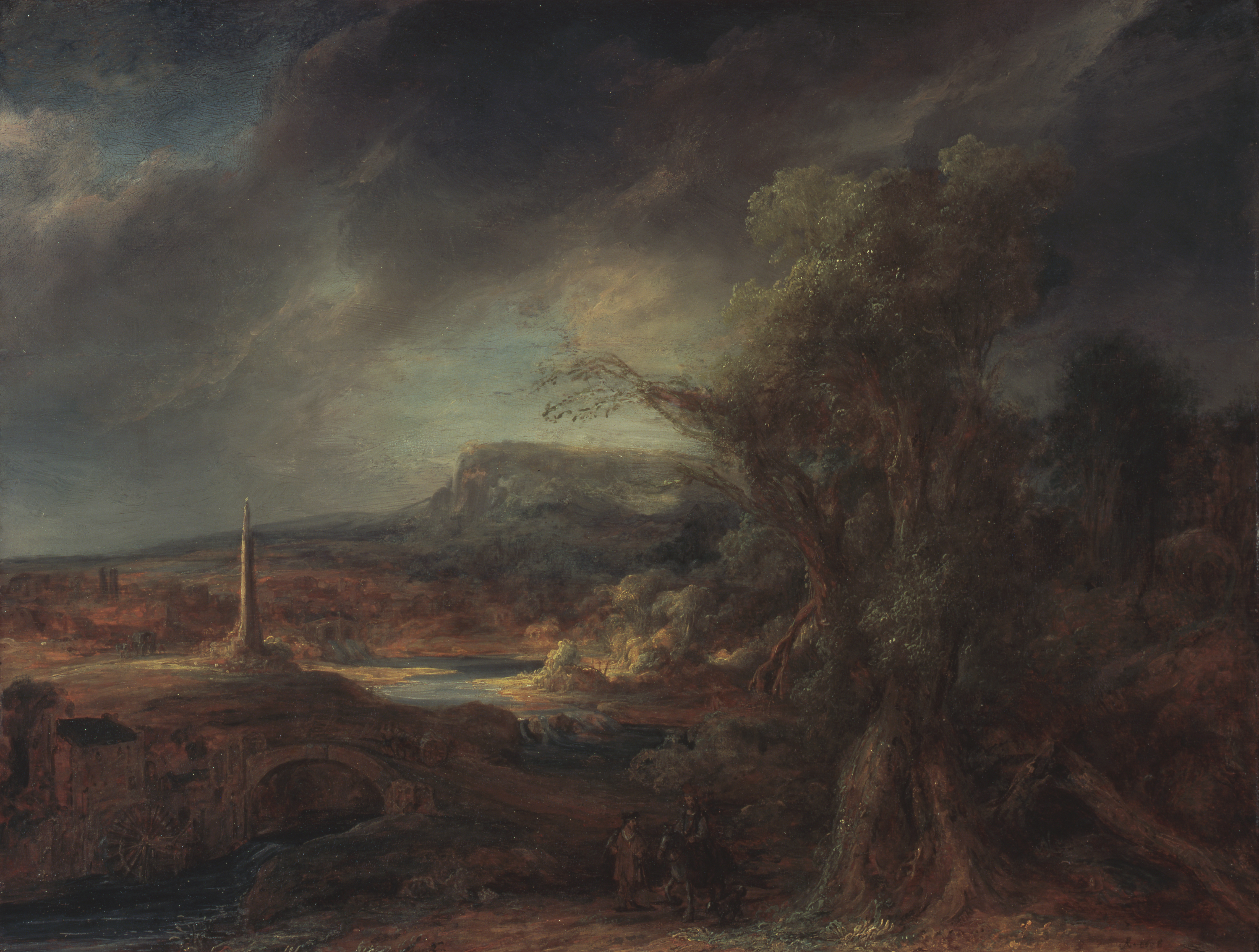 Landscape with an Obelisk, Govaert Flinck, 1638, Isabella Stewart Gardner Museum, Boston